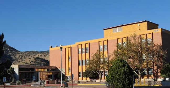 Raymond W Bliss Army Health Center at Ft Huachuca, Arizona